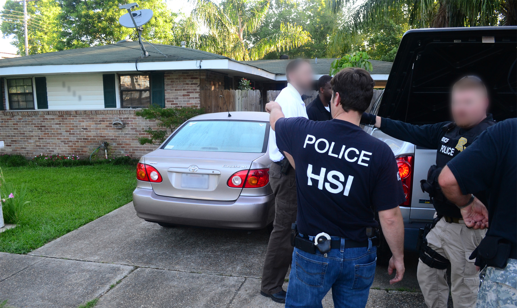 U.S. Immigration and Customs Enforcement (ICE) Director John Morton will announce the results of a major operation to identify and rescue sexually exploited children. Maryland State Police Superintendent Colonel Marcus Brown will highlight the relationship ICE’s Homeland Security Investigation’s (HSI) has with state and local law enforcement under Internet Crimes Against Children (ICAC) task forces around the country. National Center for Missing and Exploited Children (NCMEC) CEO John Ryan will discuss its partnership with HSI and ICACs to identify and rescue victims of child sexual exploitation around the world.